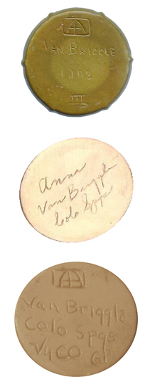 Examples of VanBriggle bottom markings. T-B: 1903, 1960's, 2004